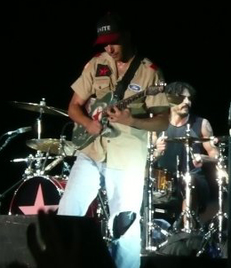 Tom Morello playing with Rage Against The Machine at the 2008 Reading Festival